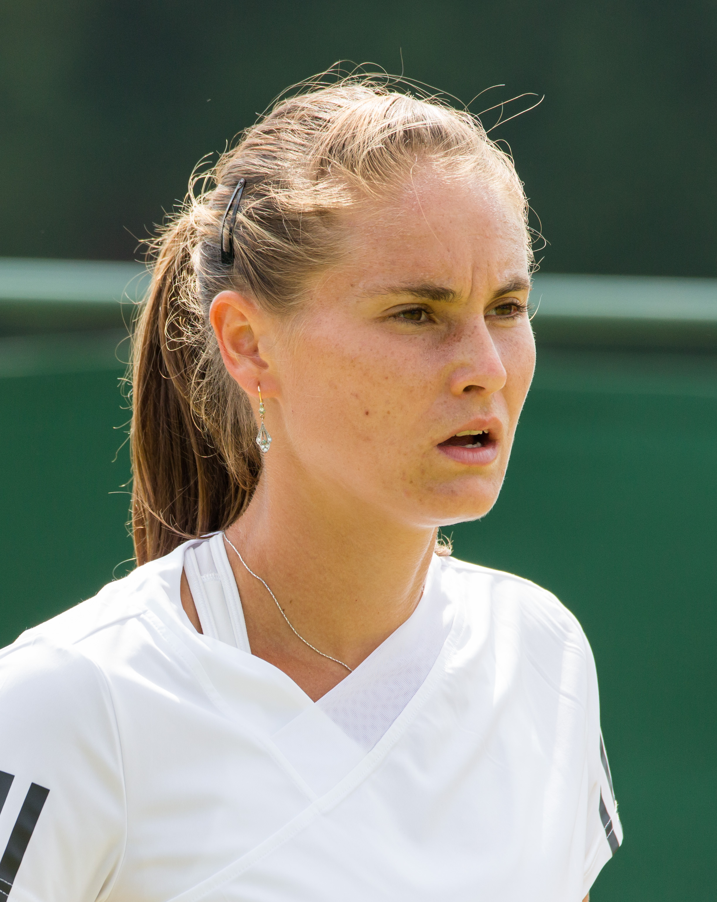 Alexandra Panova competing in the second round of the 2015 Wimbledon Qualifying Tournament at the Bank of England Sports Grounds in Roehampton, England. The winners of three rounds of competition qualify for the main draw of Wimbledon the following week.